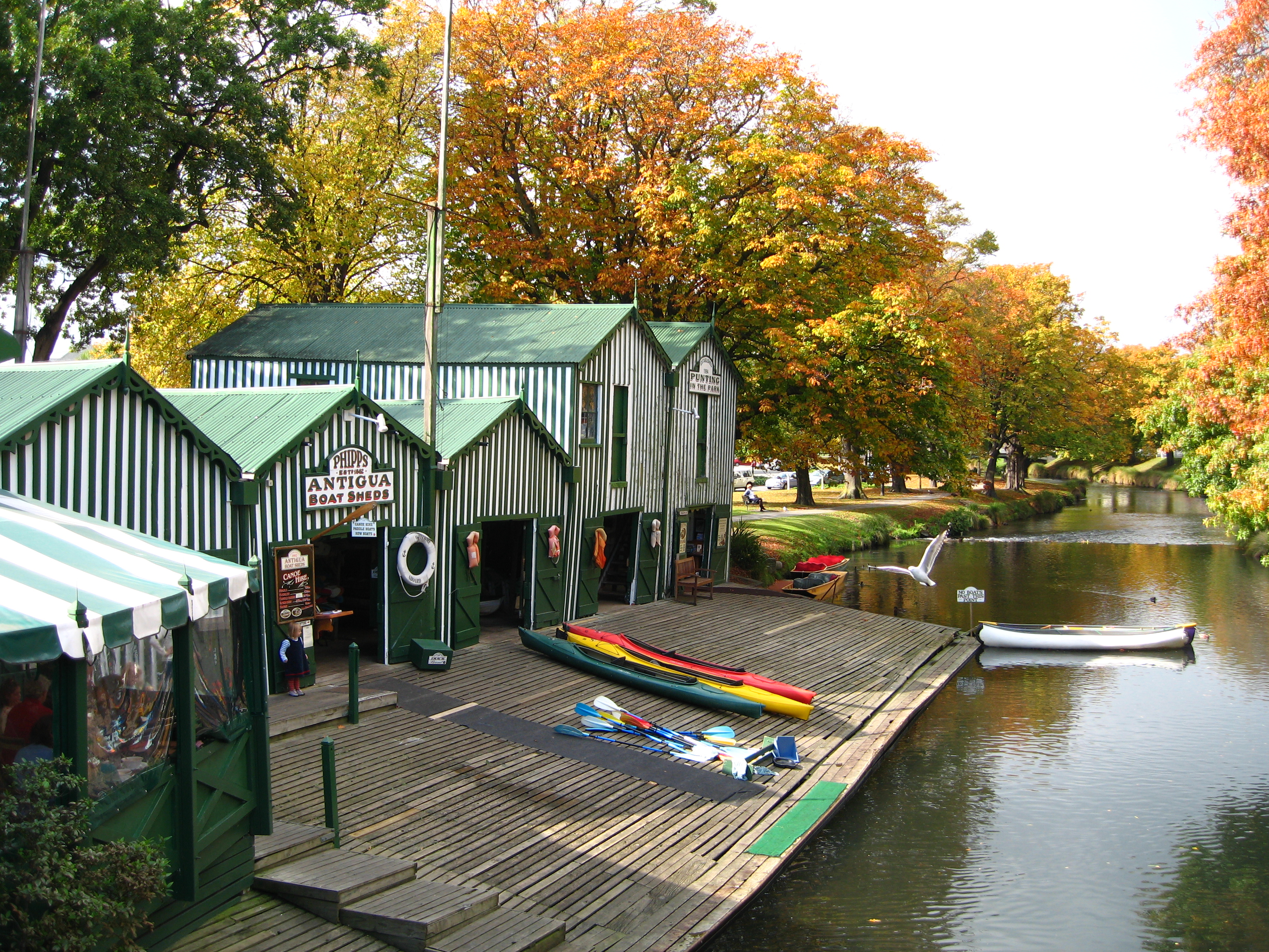 Phipps Antigua Boat sheds (est. 1882), Christchurch, New Zealand. New Zealand Historic Places Trust Register number: 1825